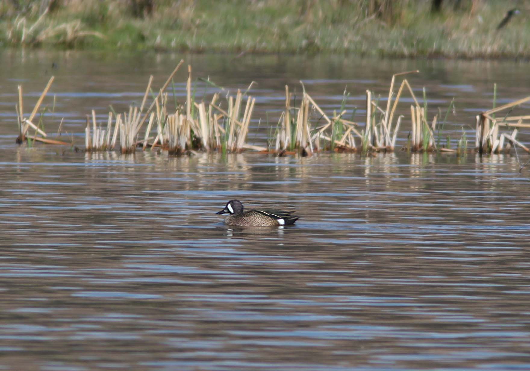 ARIZONA - BIRDS of SANTA CRUZ County